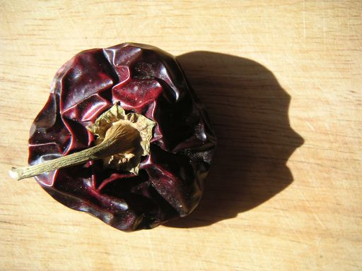 Dried read and rond Spanish pepper called "nyora" or "ñora", it is not hot. It is widely used in Catalan and Spanish dishes, where it cannot be replace by other differents peppers as "pimiento morrón" or even less chili or espelette pepper.